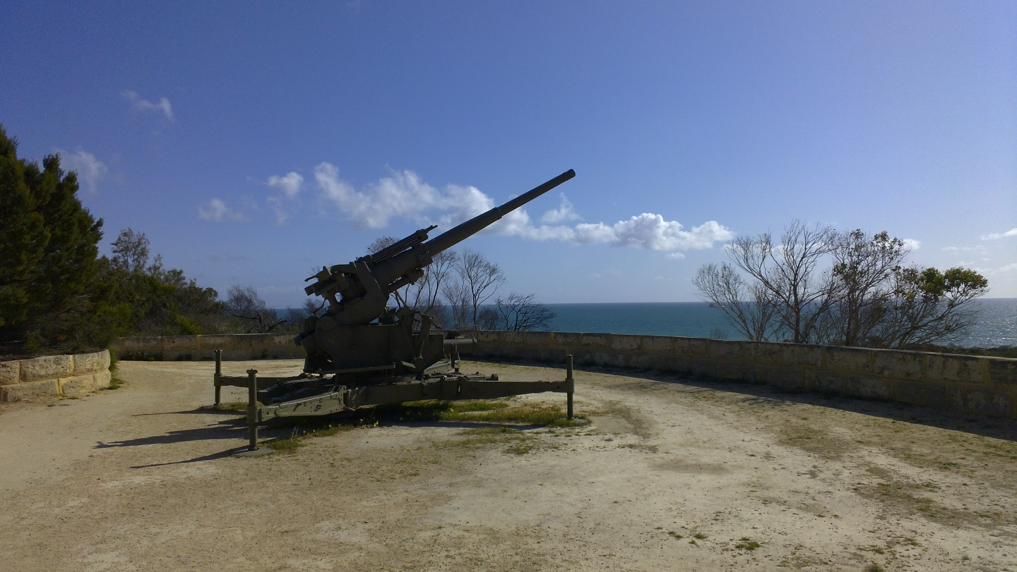 Leighton Battery, situated on Buckland Hill in Mosman Park, WA, Australia